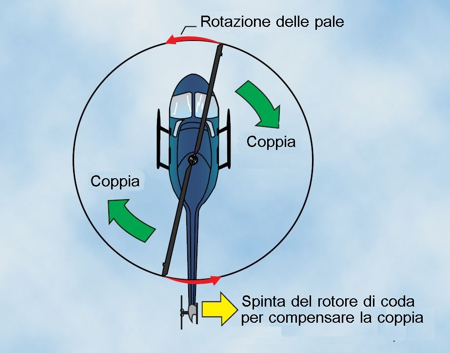 Description of helicopter torque effect. From the FAA Rotorcraft Flying Handbook.